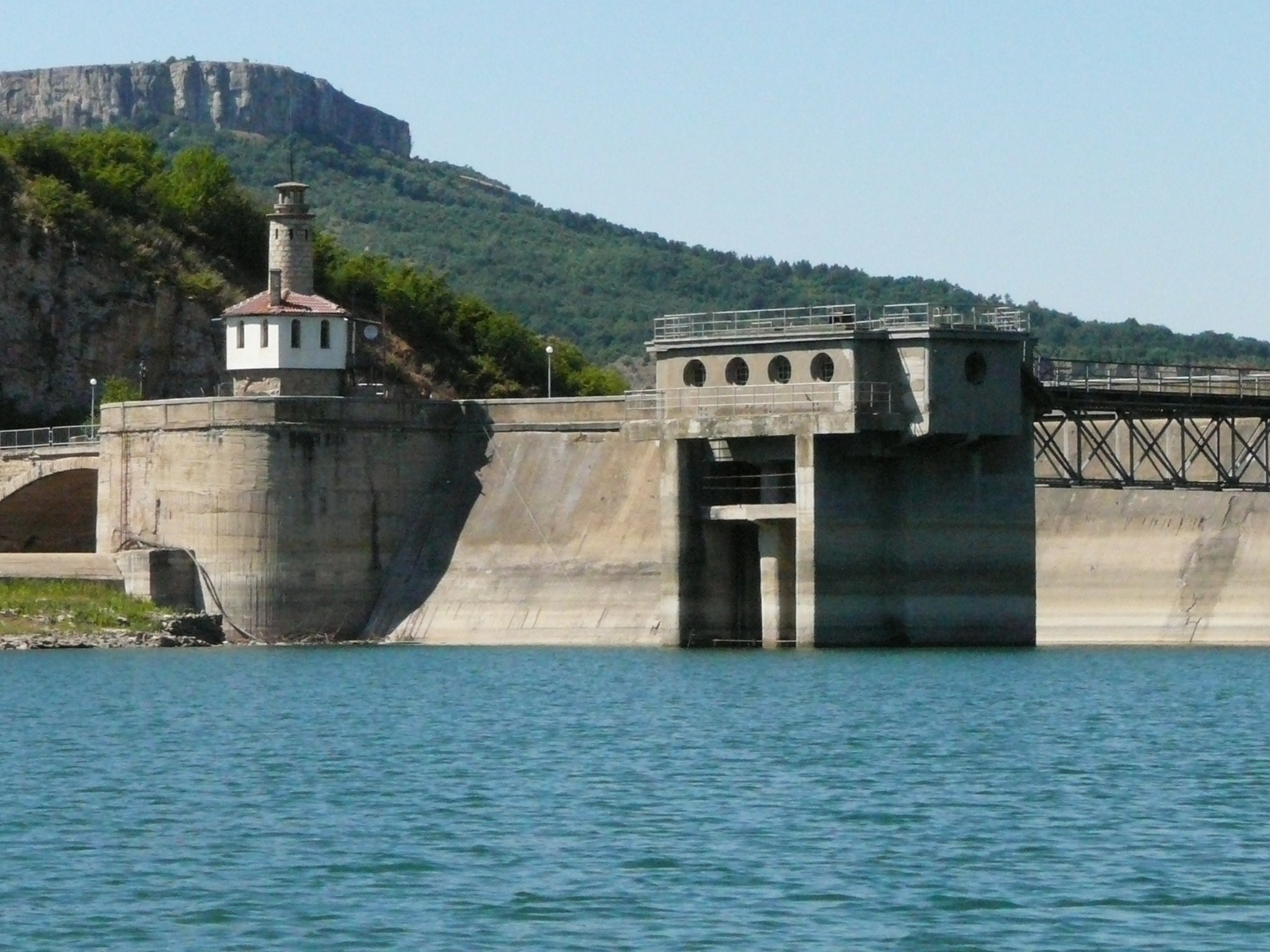 Aleksandar Stamboliyski dam, Bulgaria